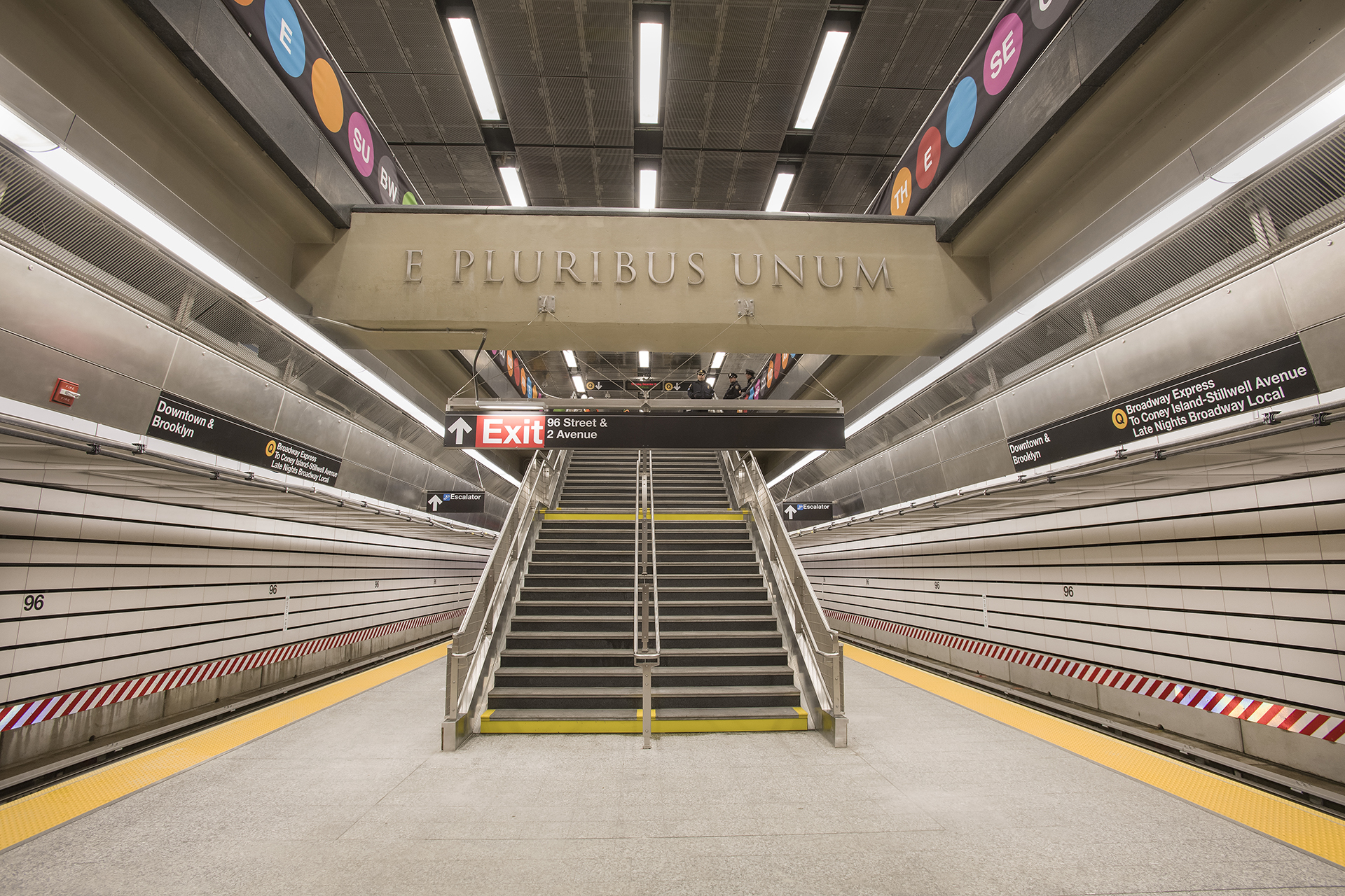 96th Street Station of the Second Avenue Subway Line displayed to the public for the first time on December 22, 2016.